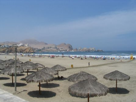 Beach in Santa María del Mar, Lima, Peru Created by User:StarbucksFreak - Mar. 2005 on March 20th 2005